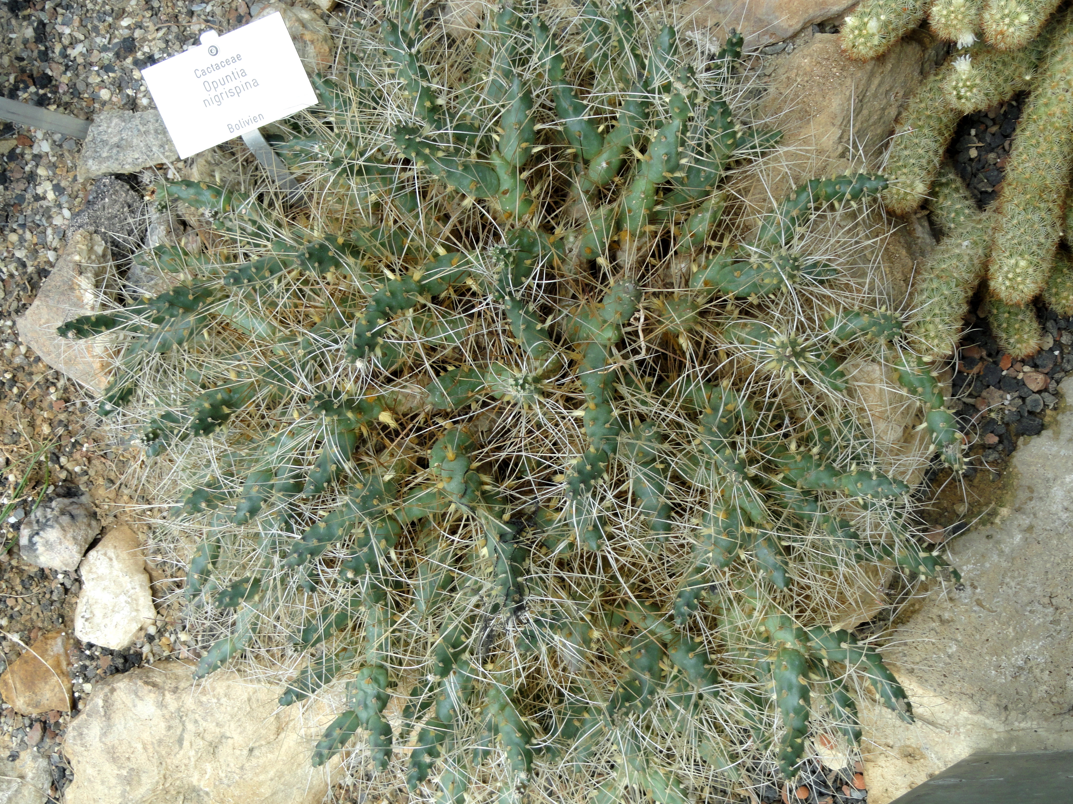 Opuntia nigrispina specimen in the Botanischer Garten Freiburg, Freiburg im Breisgau, Baden-Württemberg, Germany.